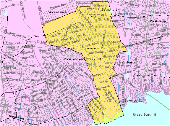 U.S. Census 2000 reference map for West Babylon, New York